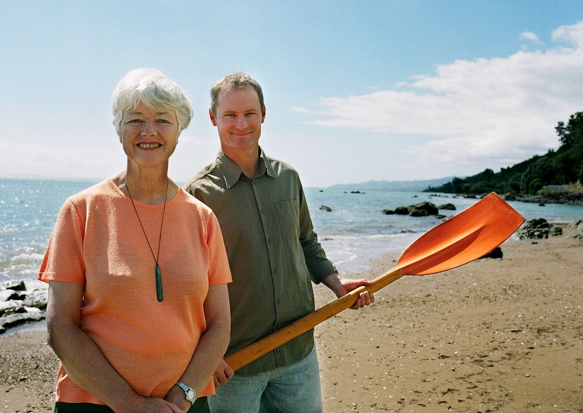 Rob Hamill, New Zealand rower and Green Party candidate, with Jeanette Fitzsimons